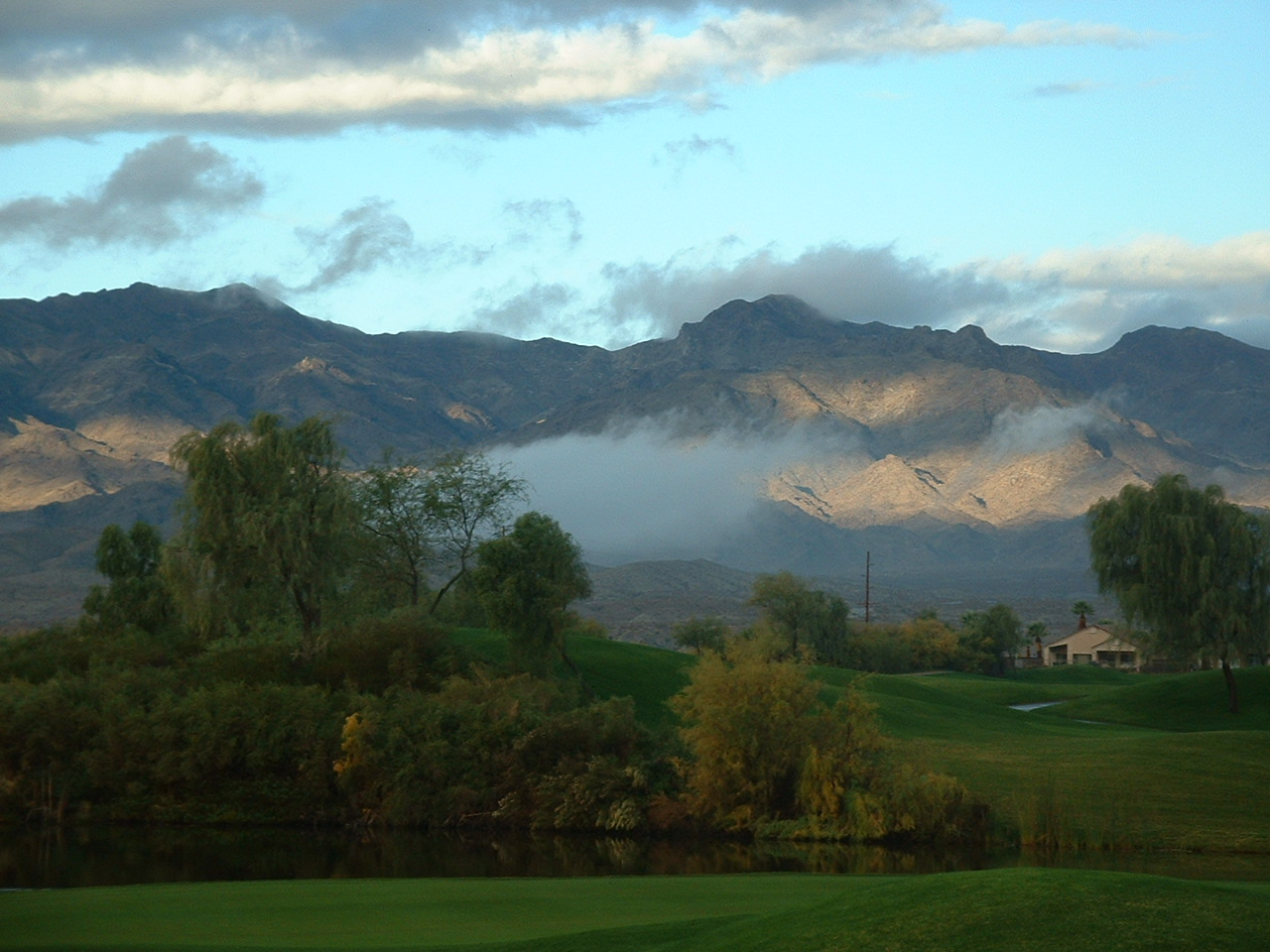 The golf course at the Avi Casino after a rainstorm